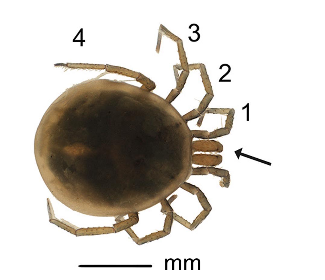 Water mite